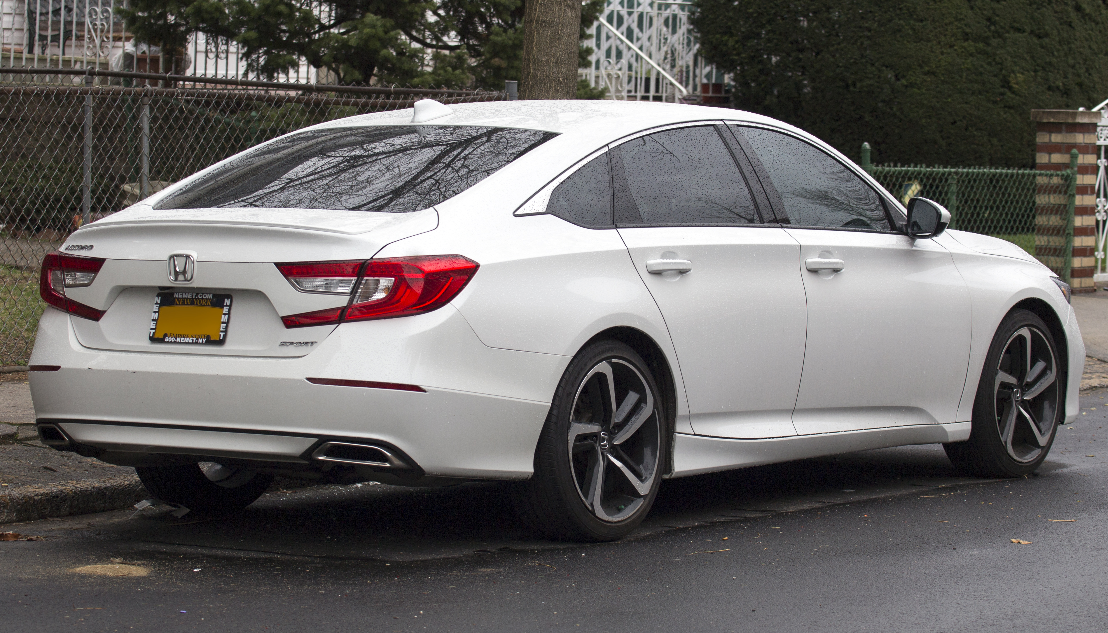 A 2018 Honda Accord Sport in the usual White.